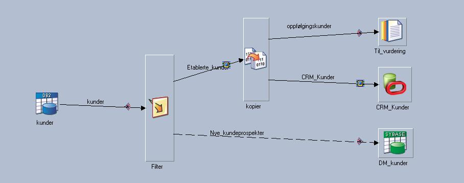 ETL job design